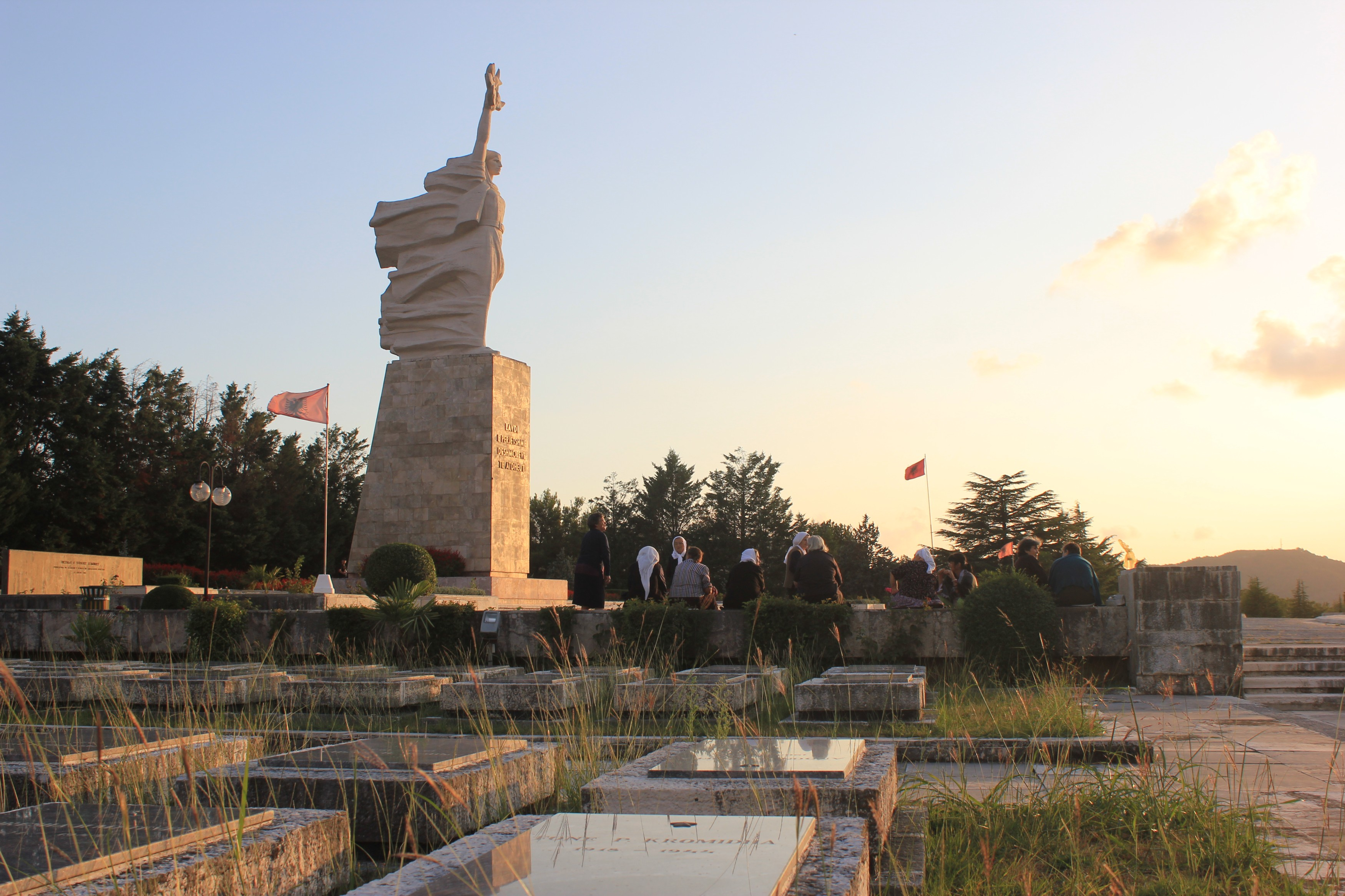 "Mother Albania" in Tirana.